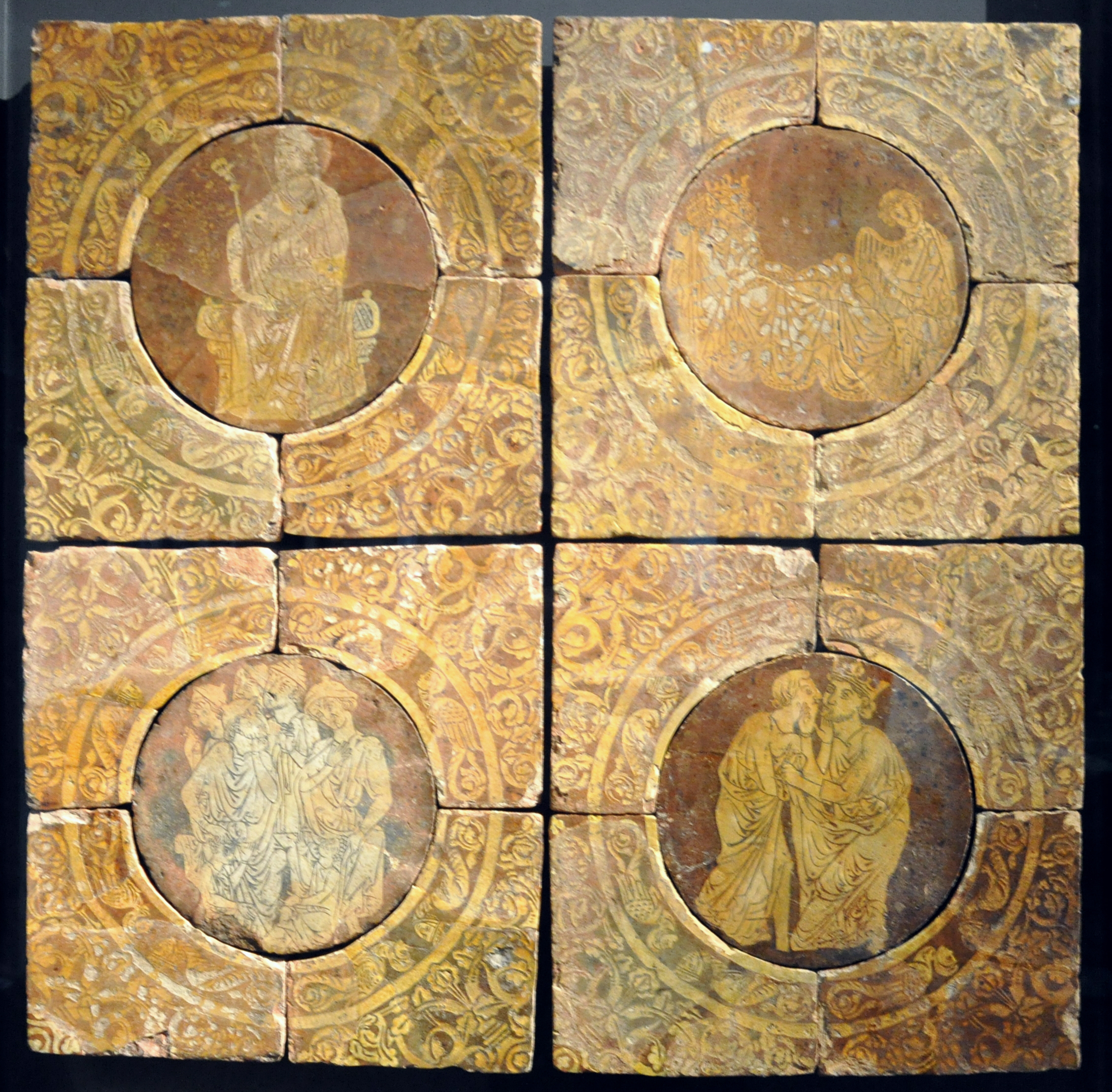 British Museum referenceBM multiple numbersDetailed descriptionTristram tiles; about 1260s–1270s; Chertsey, Surrey, England (probably designed for a royal palace of Henry III)LocationRoom 40